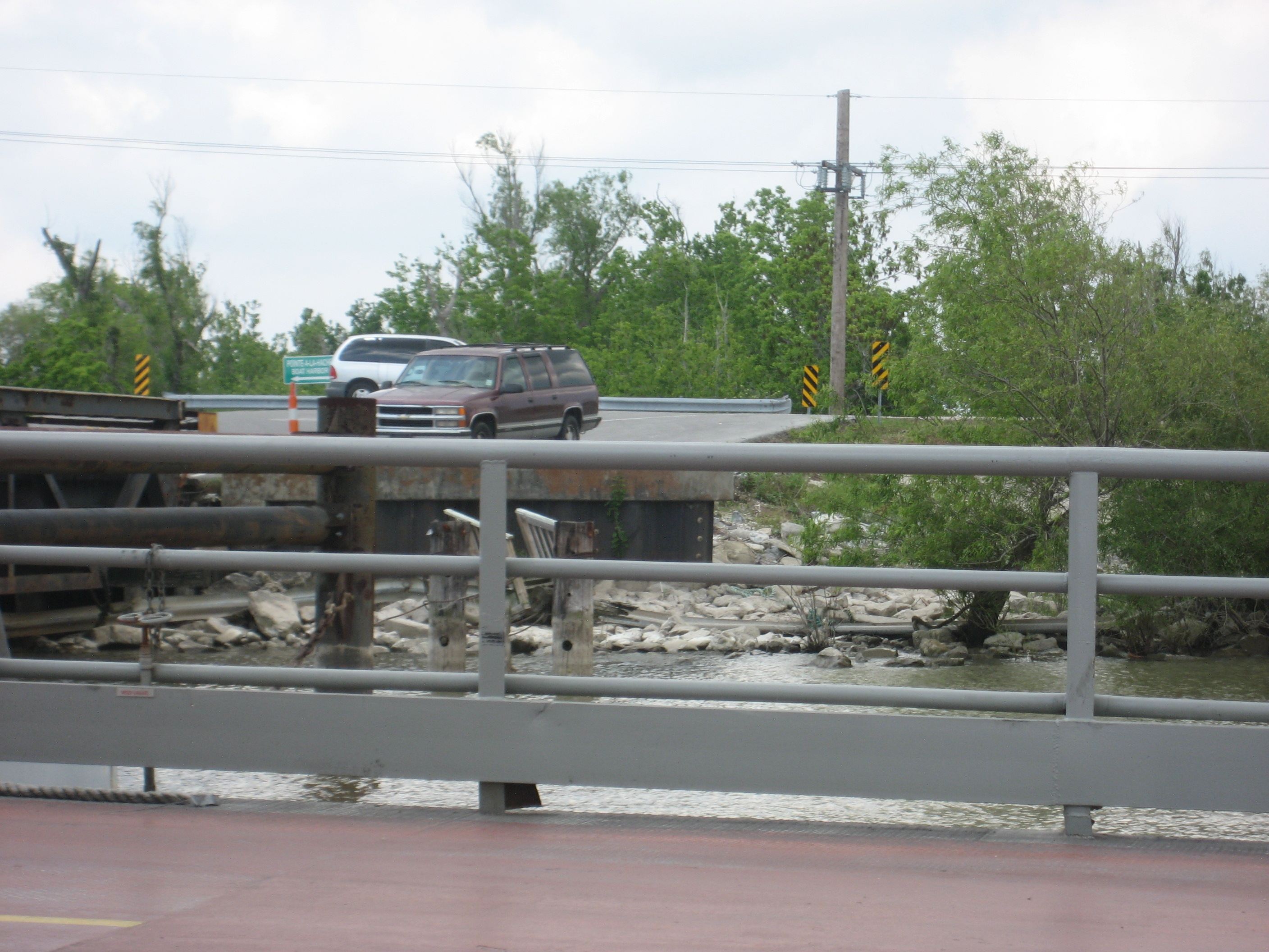 Pointe à la Hache Ferry landing, seen from ferry in the Mississippi.